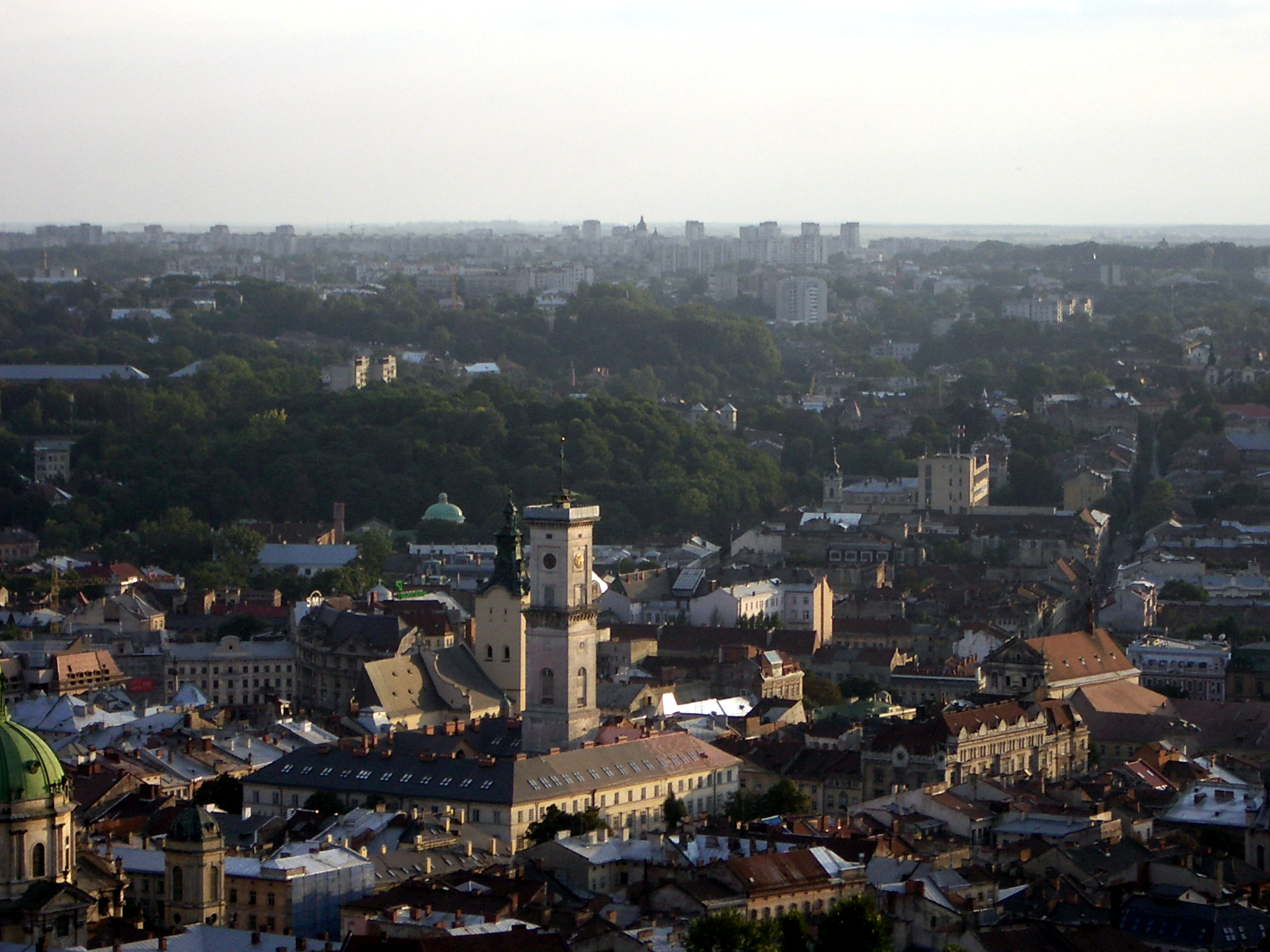 View of Lviv from the Lviv High Castle